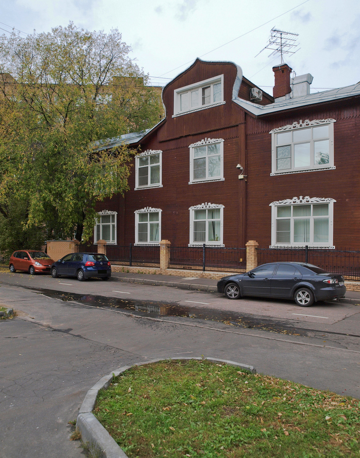 4th Rostovsky Lane, Moscow.